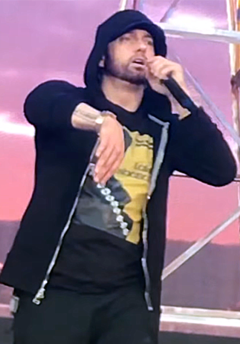 Eminem performing at Oslo Sommertid 2018